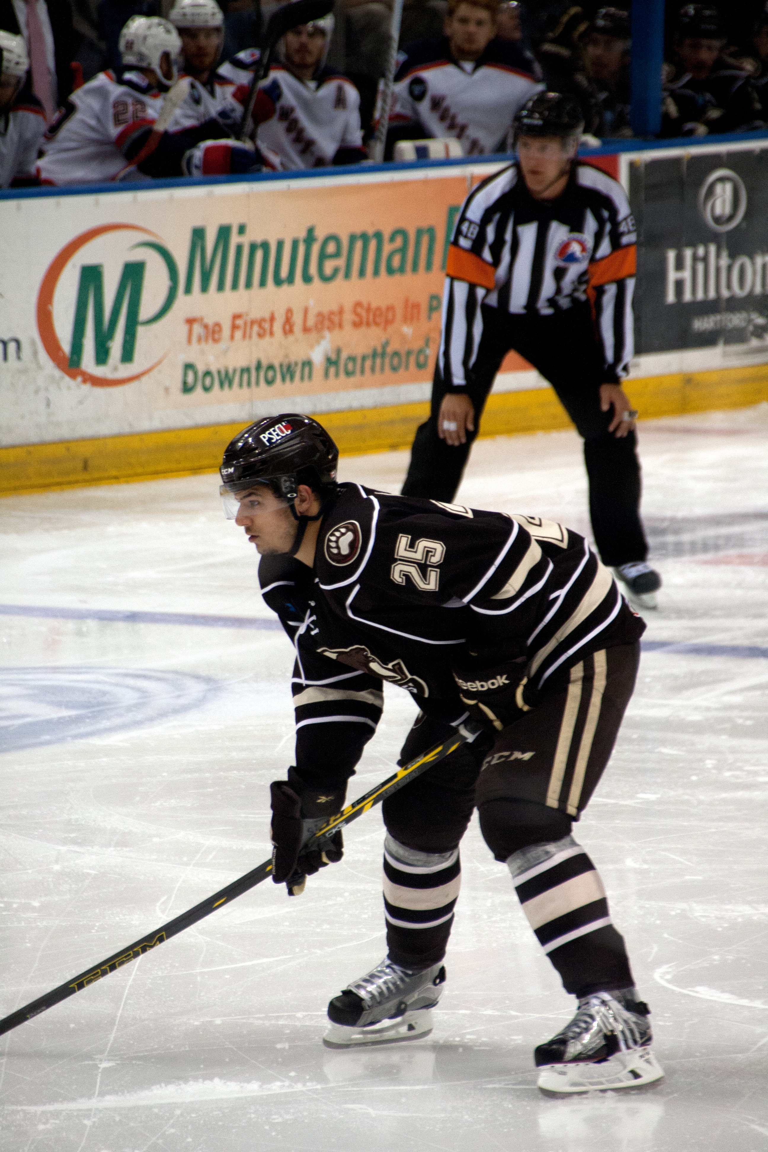 Connor Carrick